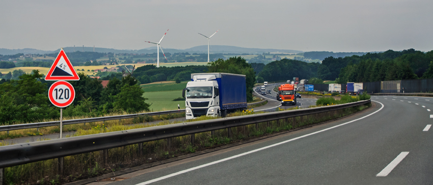 Appenhäuser Bruch nature reserve (MI-045) south of the A2